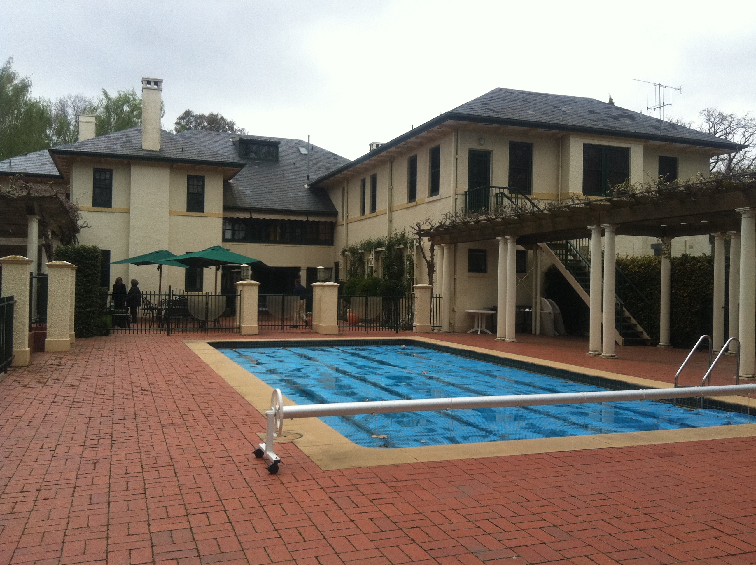 View of the Prime Minister's Lodge, Canberra, from the back, showing the swimming pool and BBQ area.